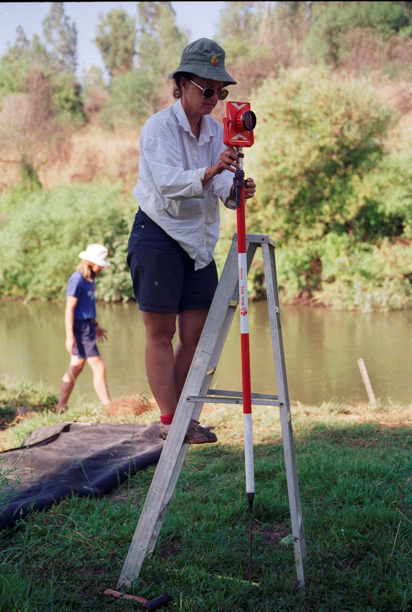 Naama Goren-Inbar during excavation at Gesher Bent Ya'aqov 1995